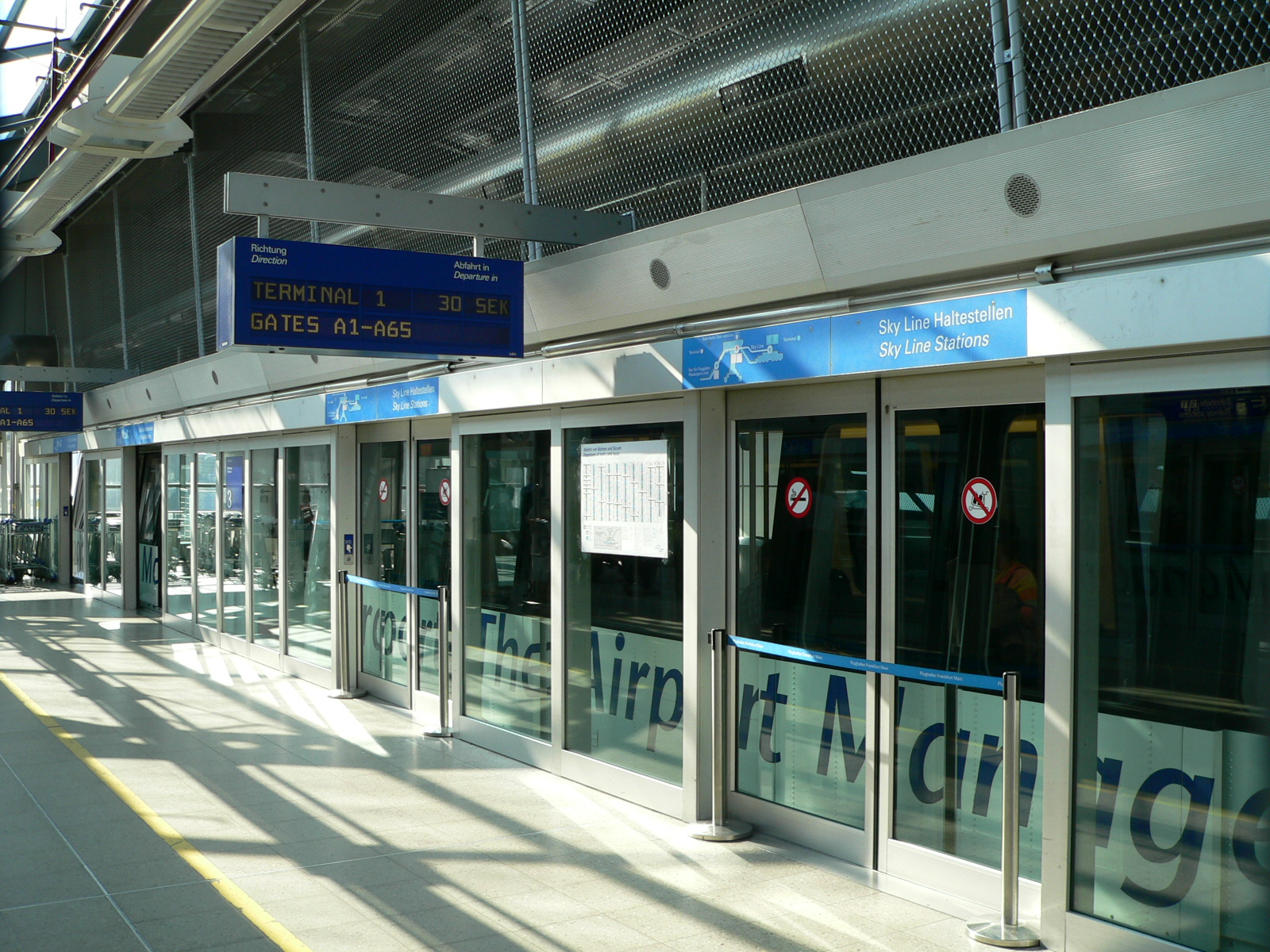 SkyLine, a line between the terminals of the airport in Frankfurt/Main, Germany